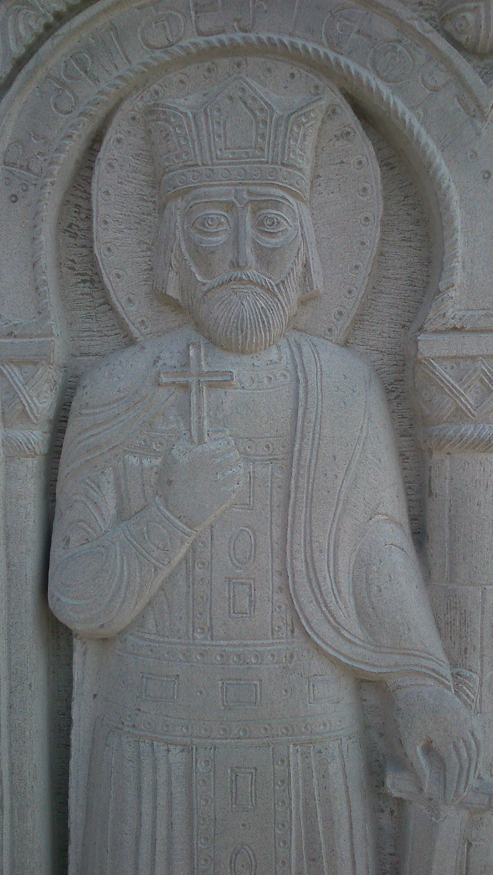 Relief of King Demetrius II of Georgia